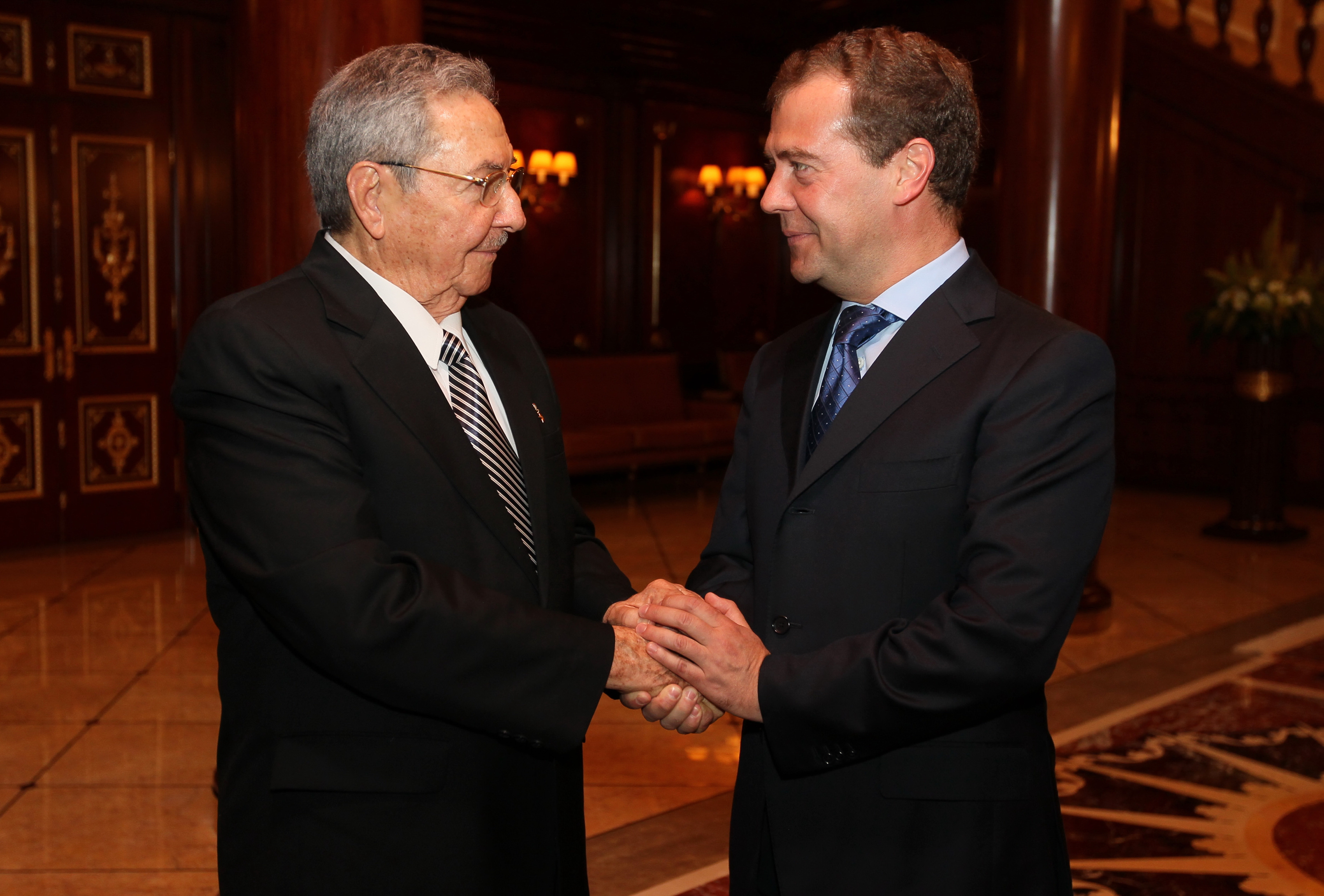 Prime Minister Dmitry Medvedev meets with President of the Council of State and the Council of Ministers of Cuba Raúl Castro